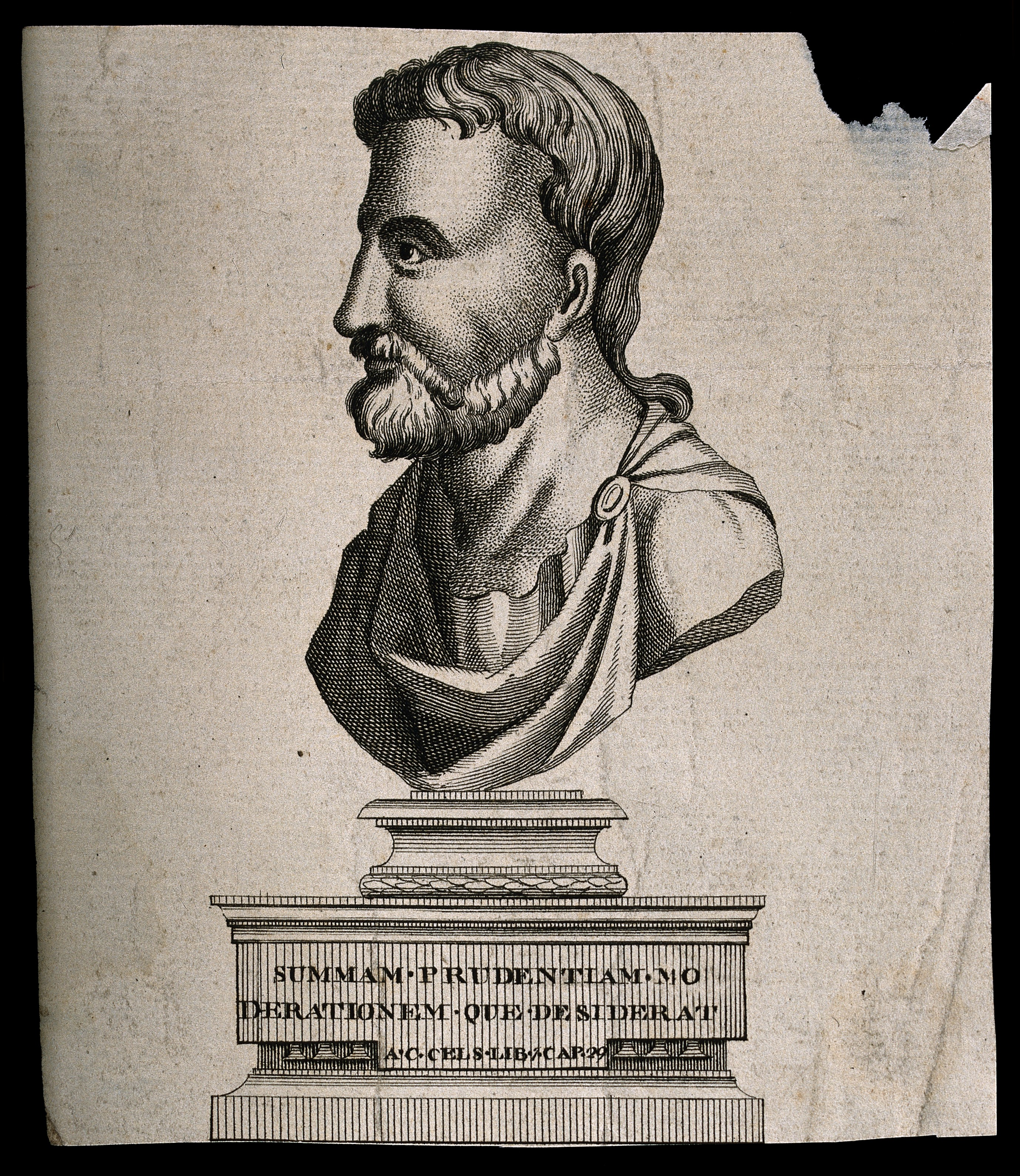 A. Cornelius Celsus, profile bust on a pedestal. Engraving. Iconographic Collections Keywords: Aulus Cornelius Celsus